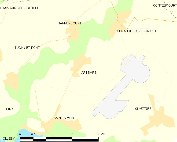 Map of French commune: Artemps Map commune FR insee code 02025.png